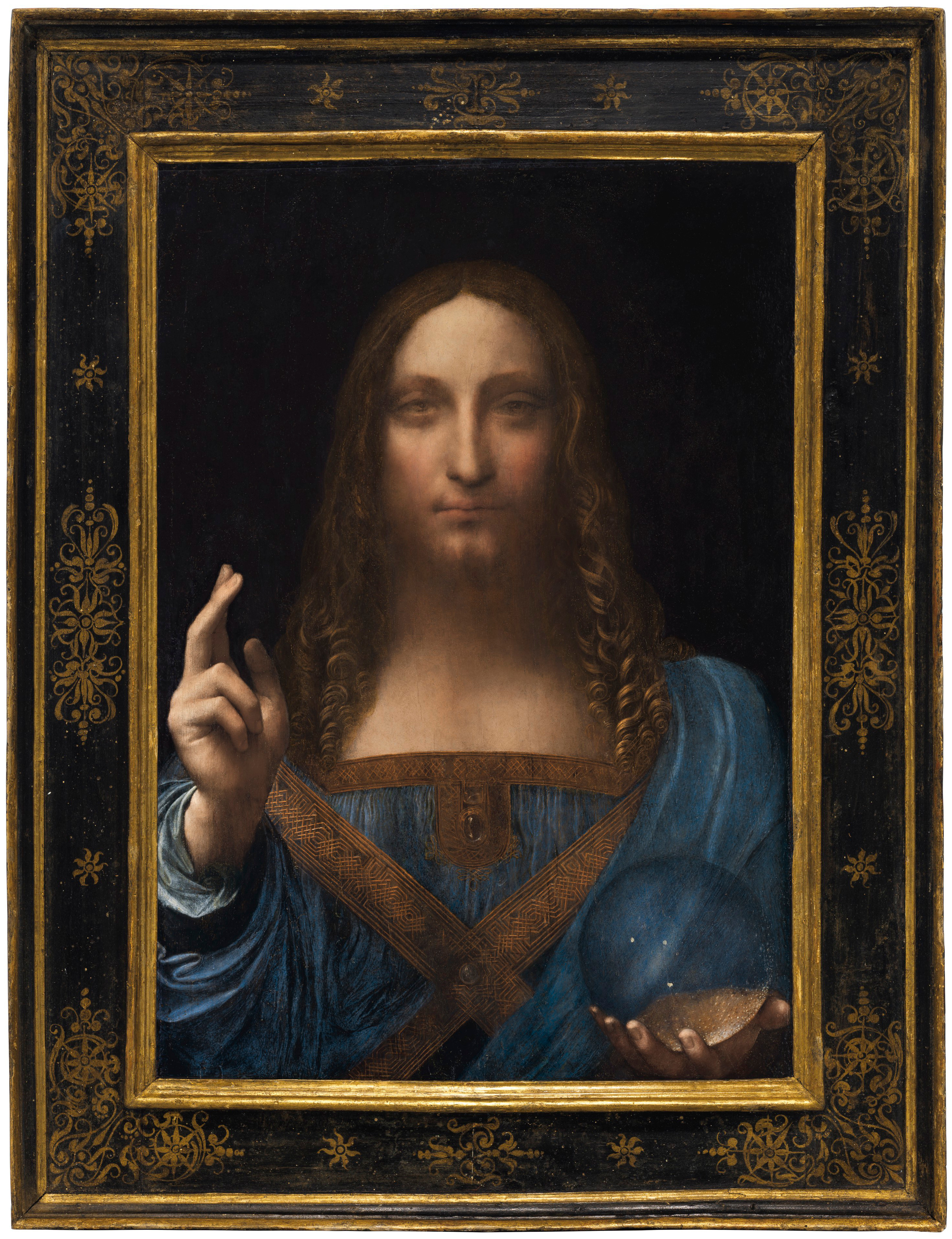 A painting recently by some experts authenticated as the work of Leonardo da Vinci. "Salvator Mundi," dating to around 1500. It depicts a half-length figure of Christ with one hand raised in blessing and the other holding an orb.